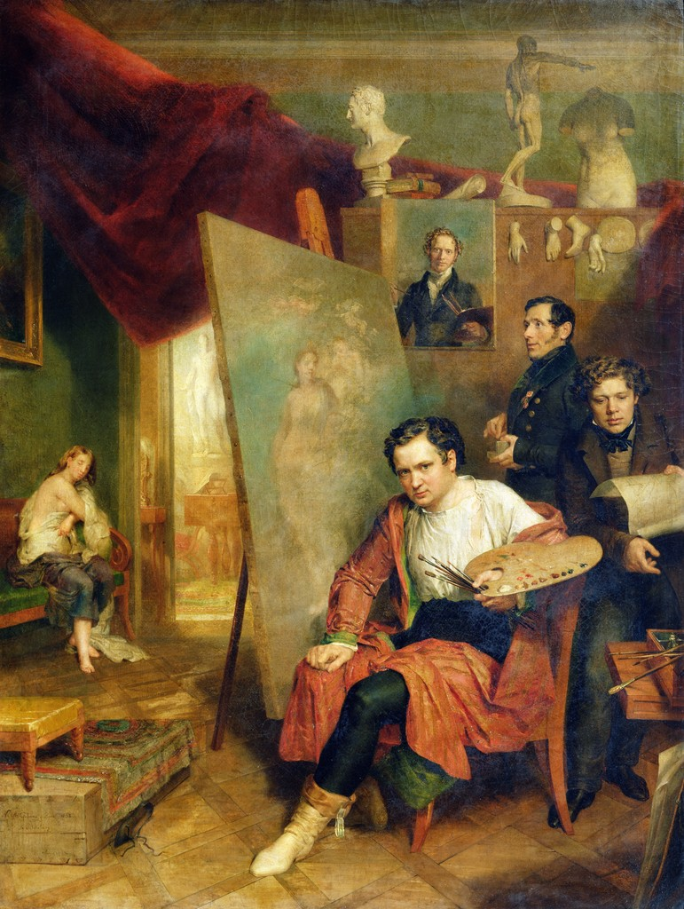 Wilhelm August Golicke "At the Studio of the Artist Golicke"